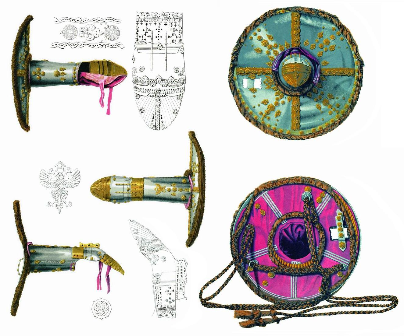 Battle weaponized shield